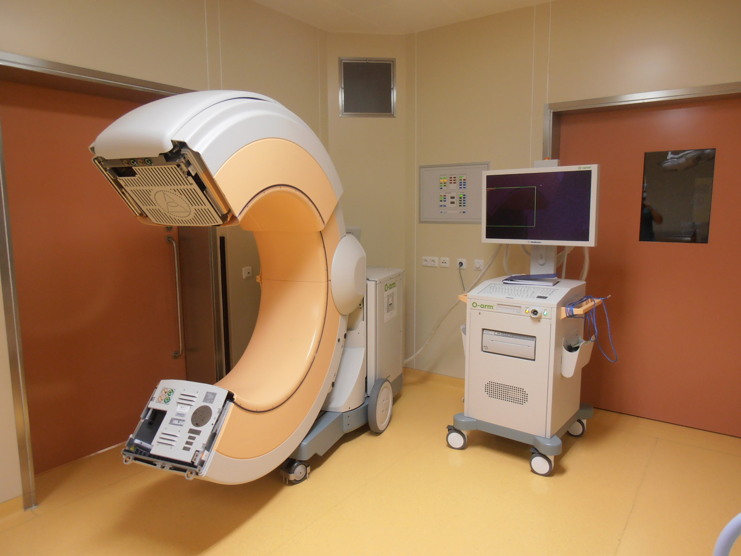 Russia's first mobile scanner O-arm ® Surgical Imaging System of Medtronic. Federal Neurosurgery Center in Tyumen (village Patrushevo, Chervishevsky tract, 4th km, house 5).